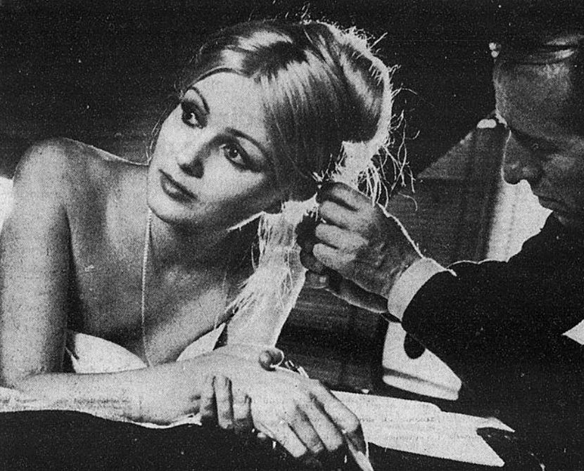 Rome (Italy), 1971. American actress Pamela Tiffin on the set of Italian movie The Fifth Cord (Giornata nera per l'ariete) by Luigi Bazzoni.